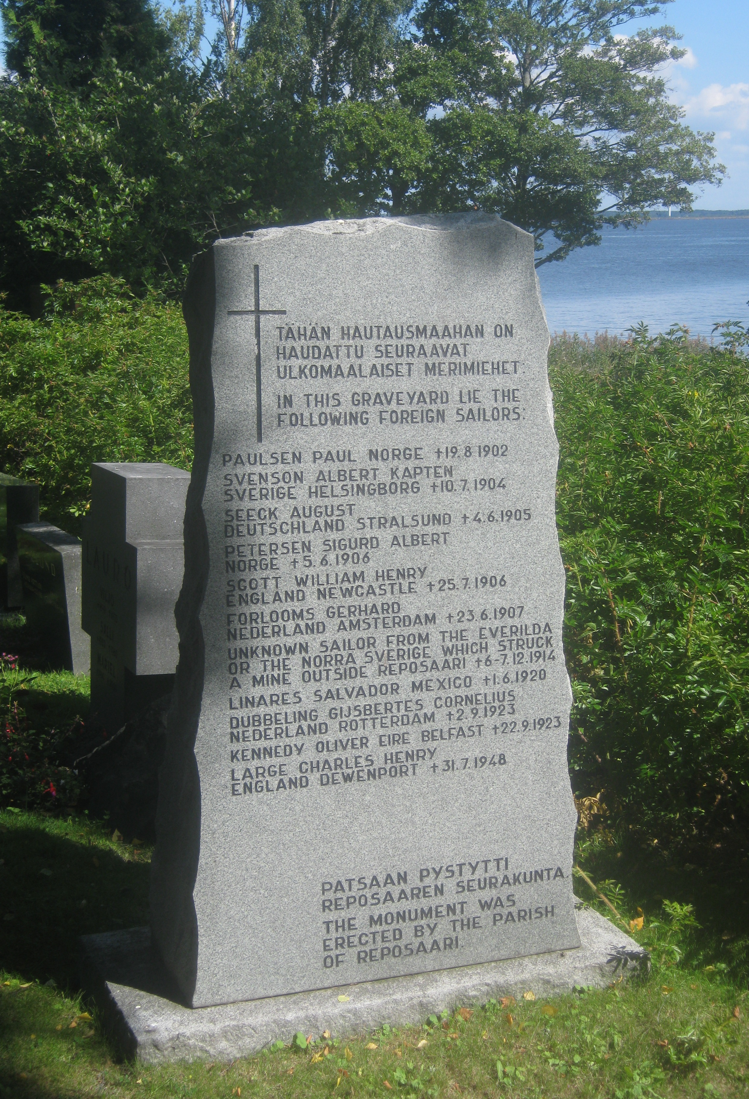 Memorial of foreign sailors buried at Reposaari cemetery, Pori, Finland.